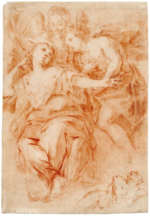 Drawing by Doudijns, Special Collections Leiden University Library